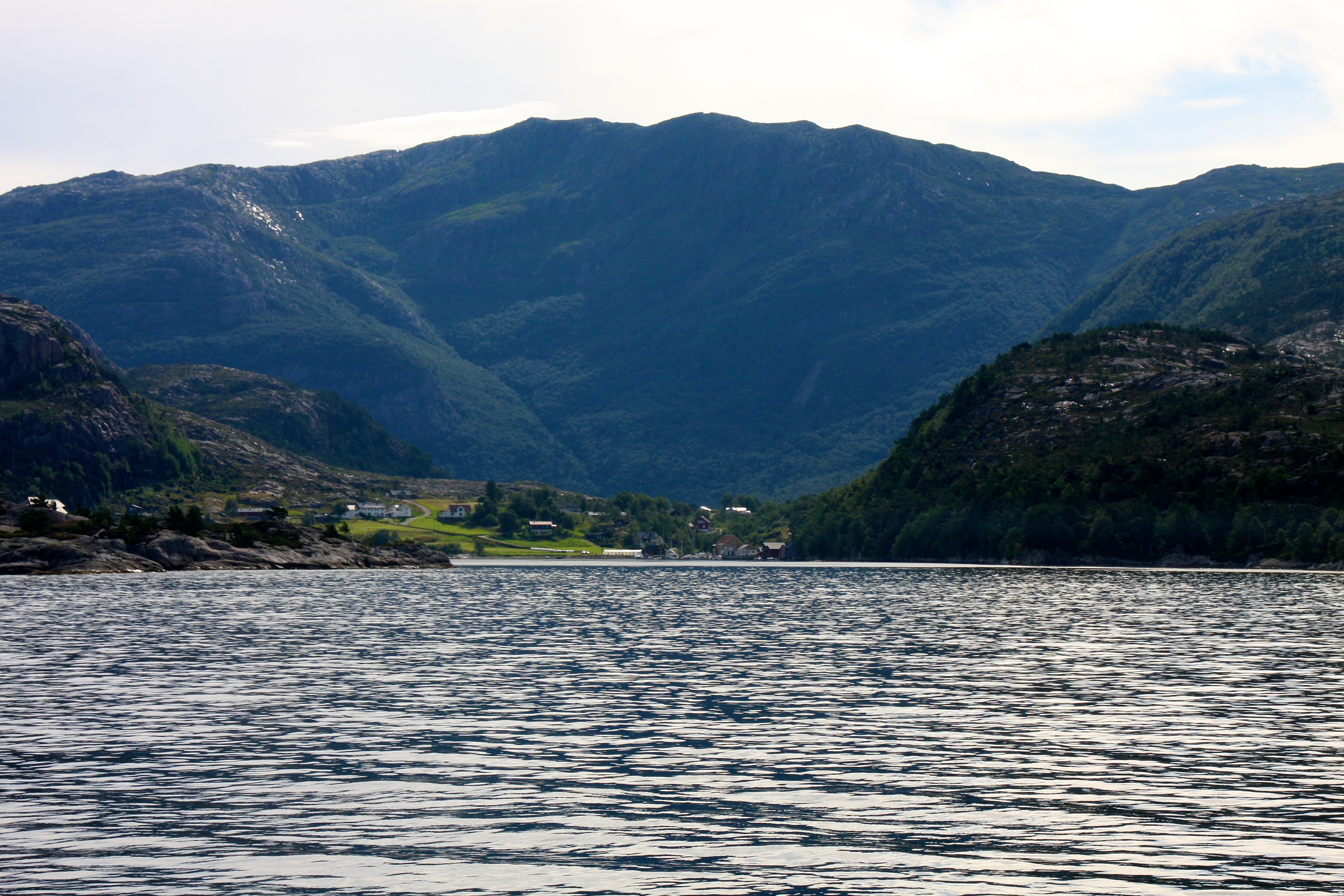 Gulen municipality, Norway.